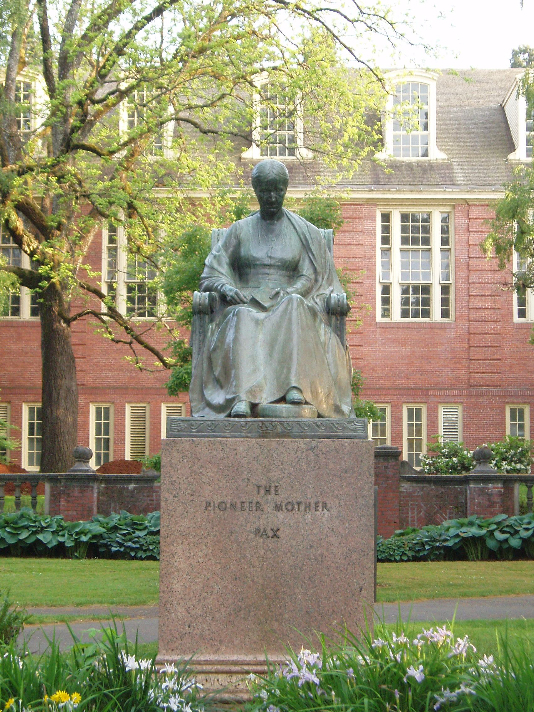 The Pioneer Mother statue, on the University of Oregon campus in Eugene, Oregon.